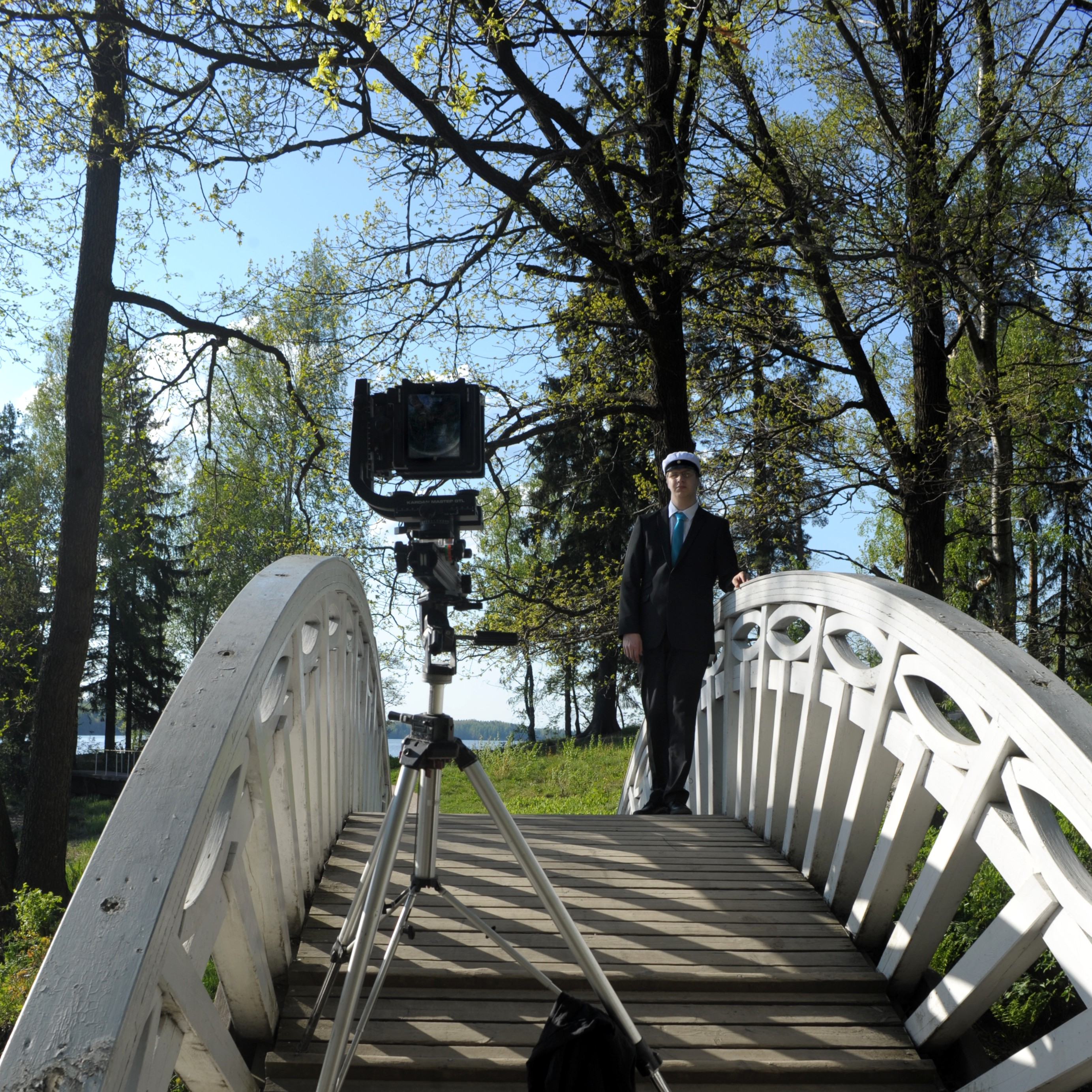 Photographing in Monrepos, Vyborg